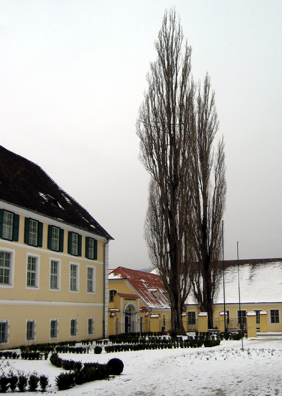 The Batthyány-Castle in Pinkafeld, Burgenland, Austria